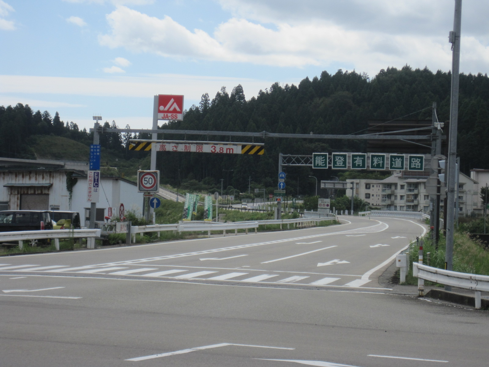 Anamizu IC(Noto Toll Road)